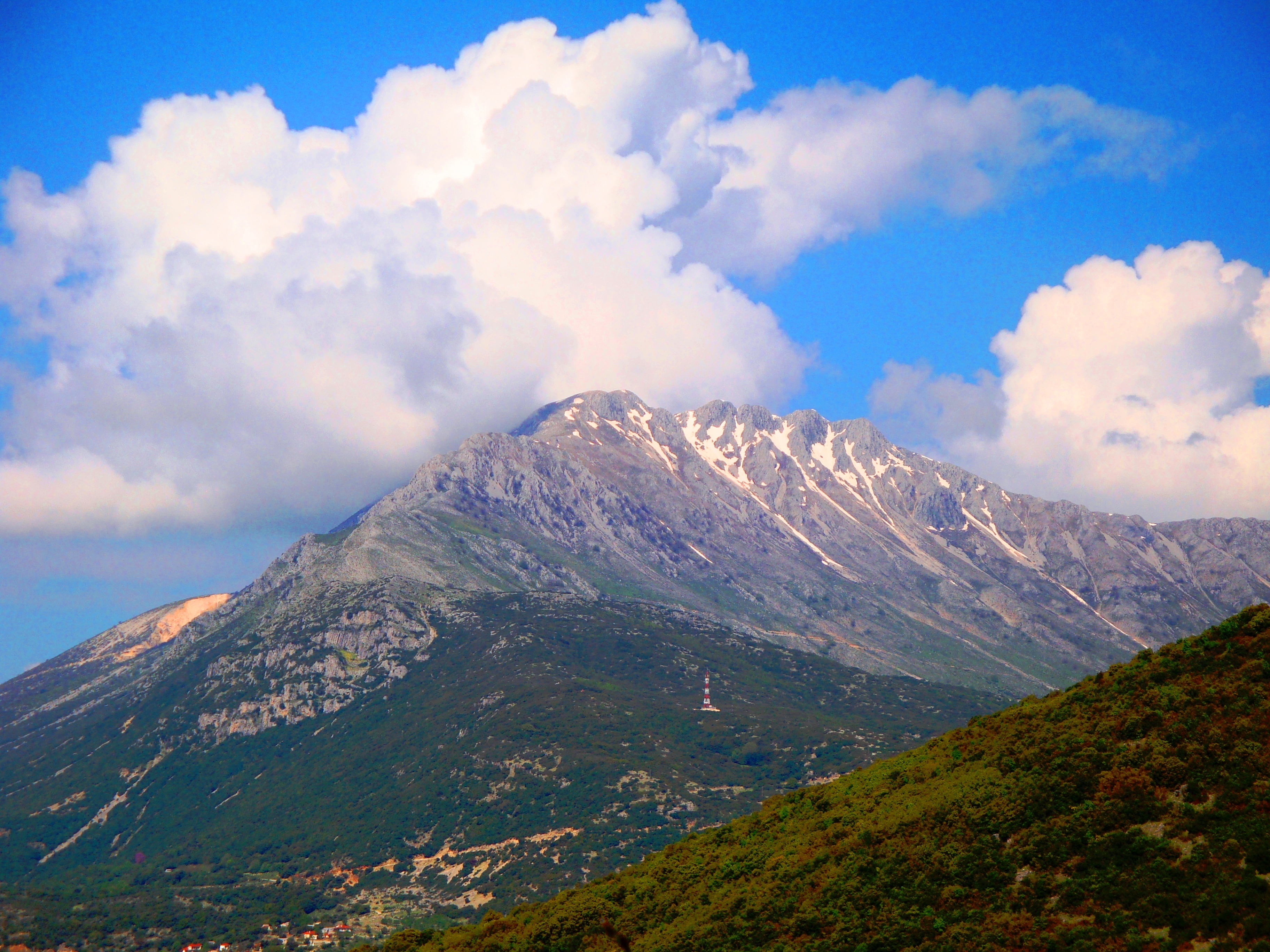 Mount Tomaros, Epirus, Greece